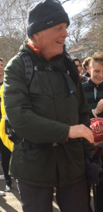 Michael dobbs finishing his charity walk.